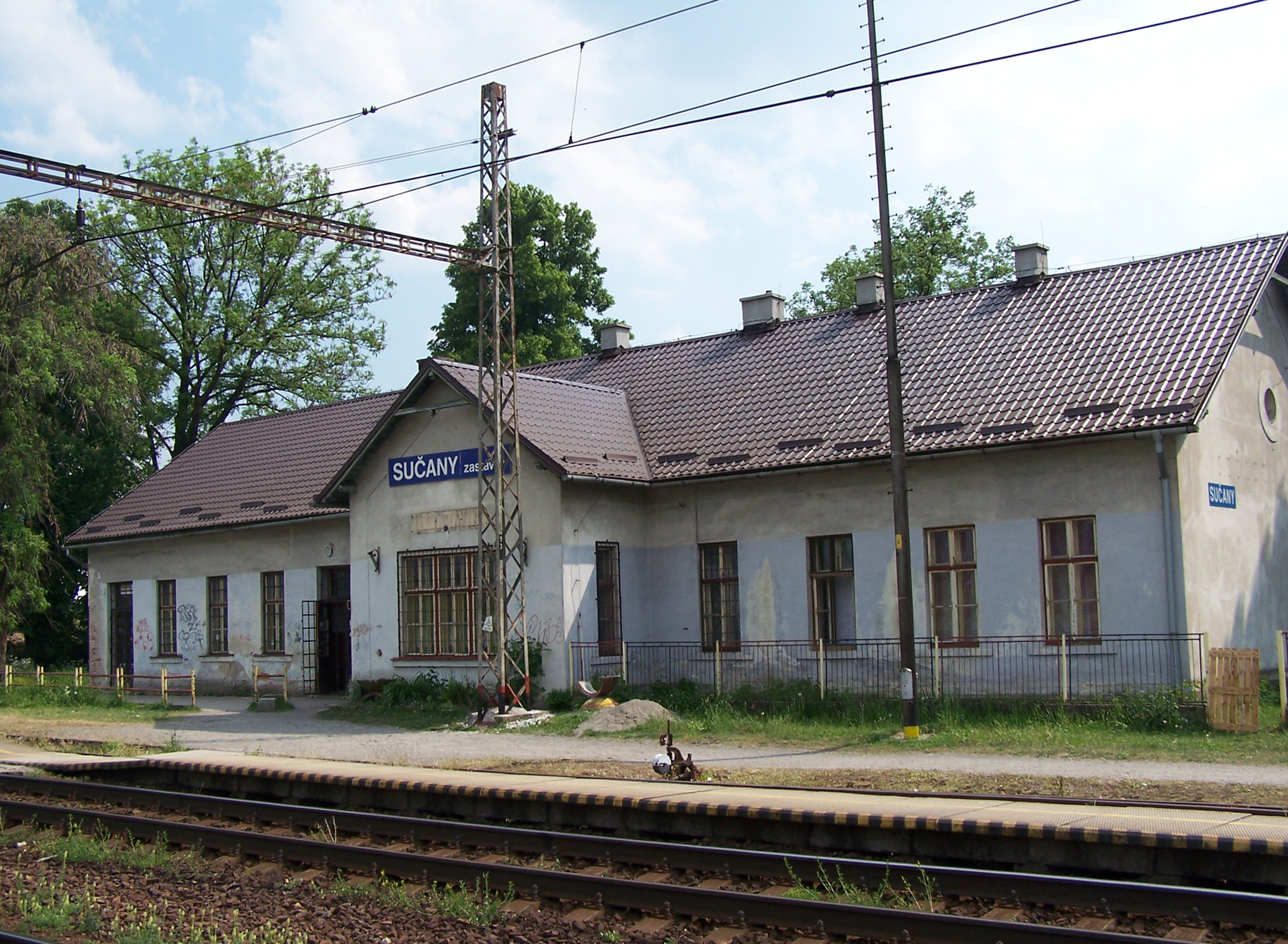 Train station in Sučany, Slovakia